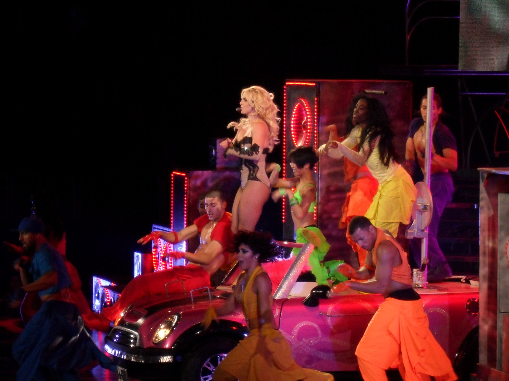 Spears performing "How I Roll" atop a pink car.